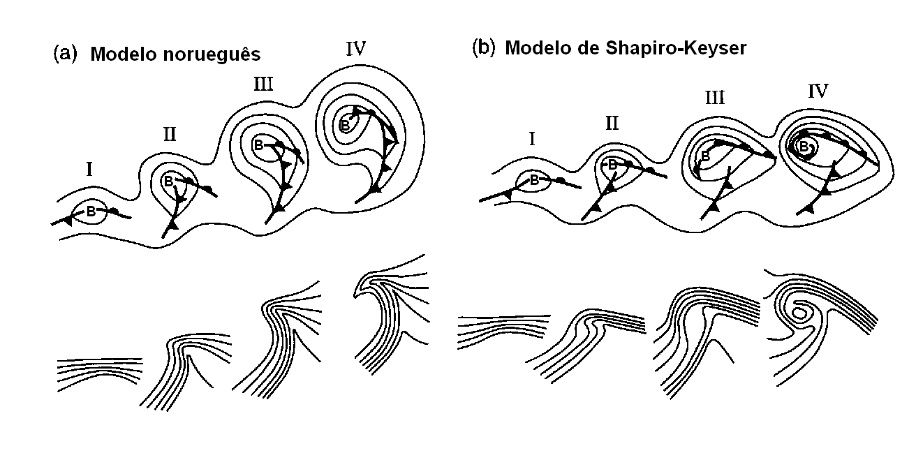 Derivated work from Image:Cyclonemodels.gif (Translated captions to Portuguese)